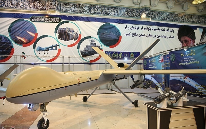 Shahed 129